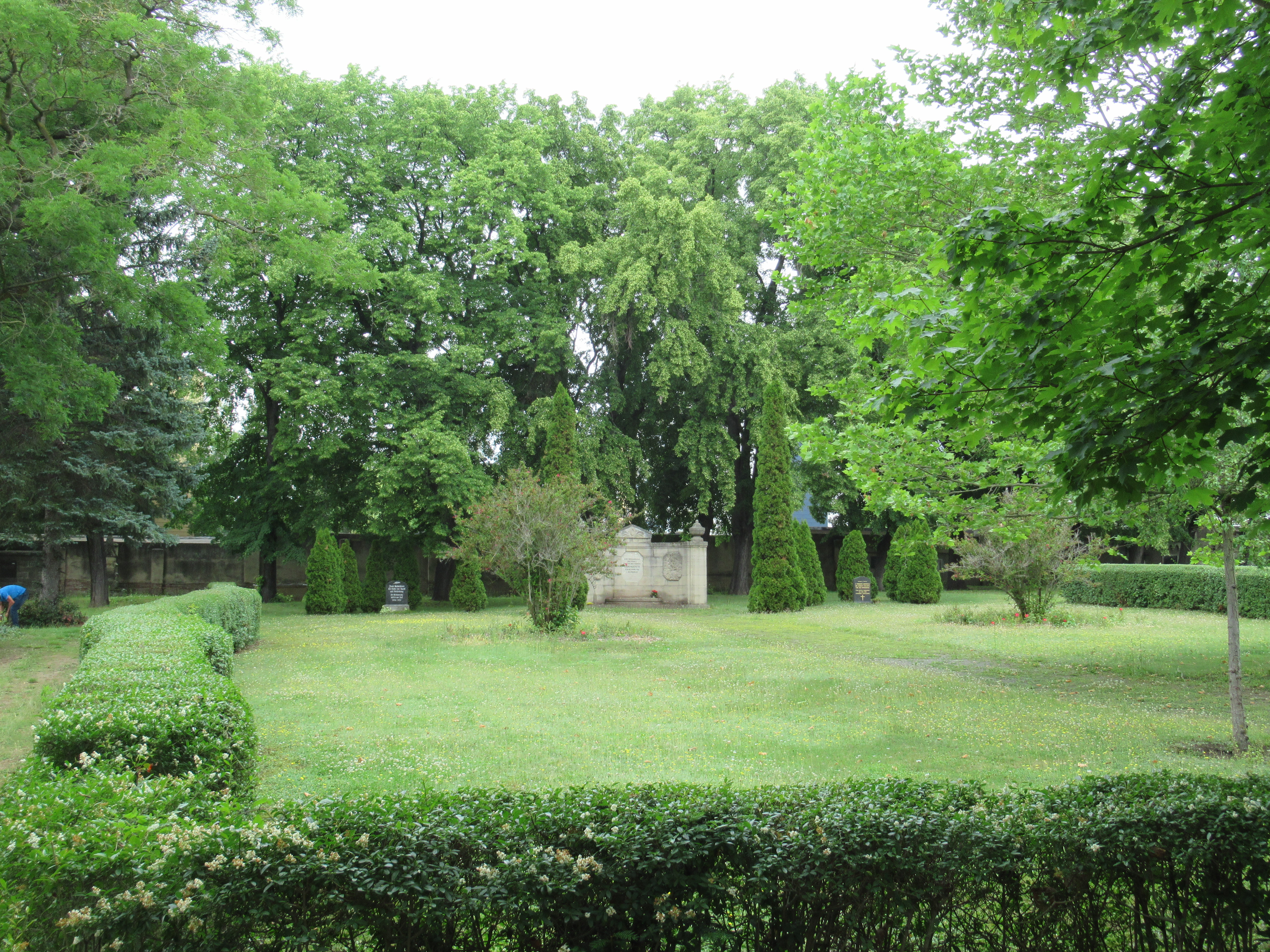 Aschersleben Cemetery Bombing Victims WW II